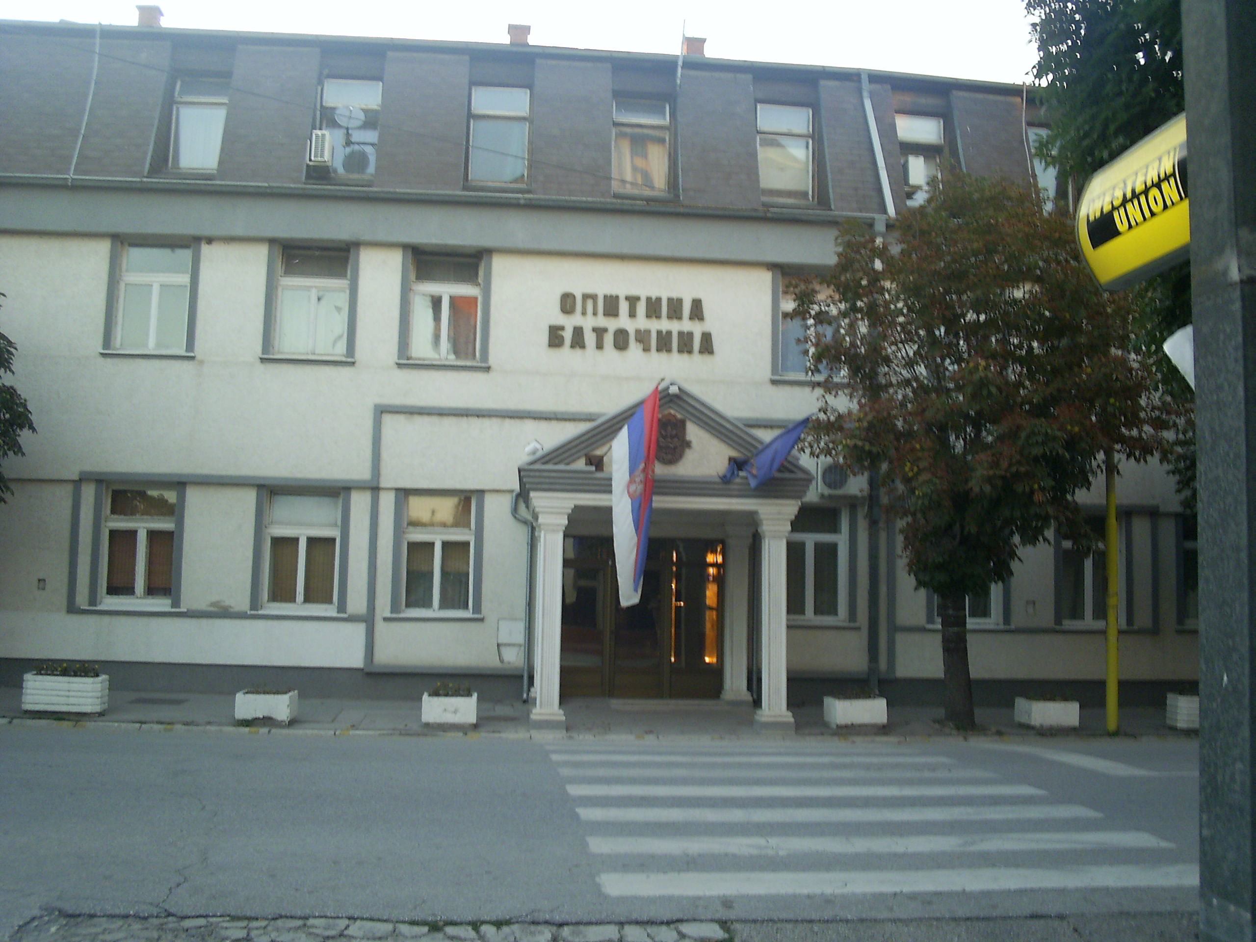 Batočina municipality house, Batočina, Serbia